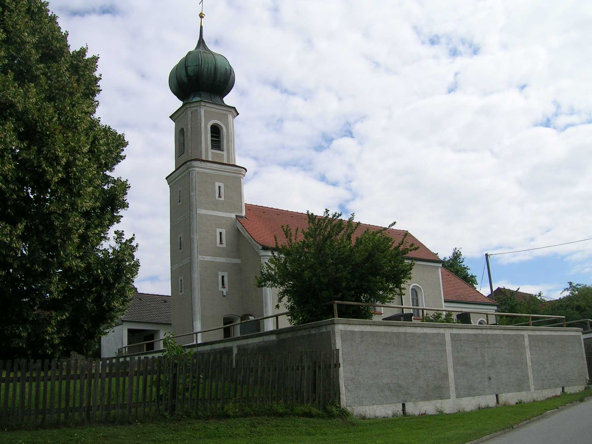 Church in Willersdorf, Gammelsdorf, Upper Bavaria.